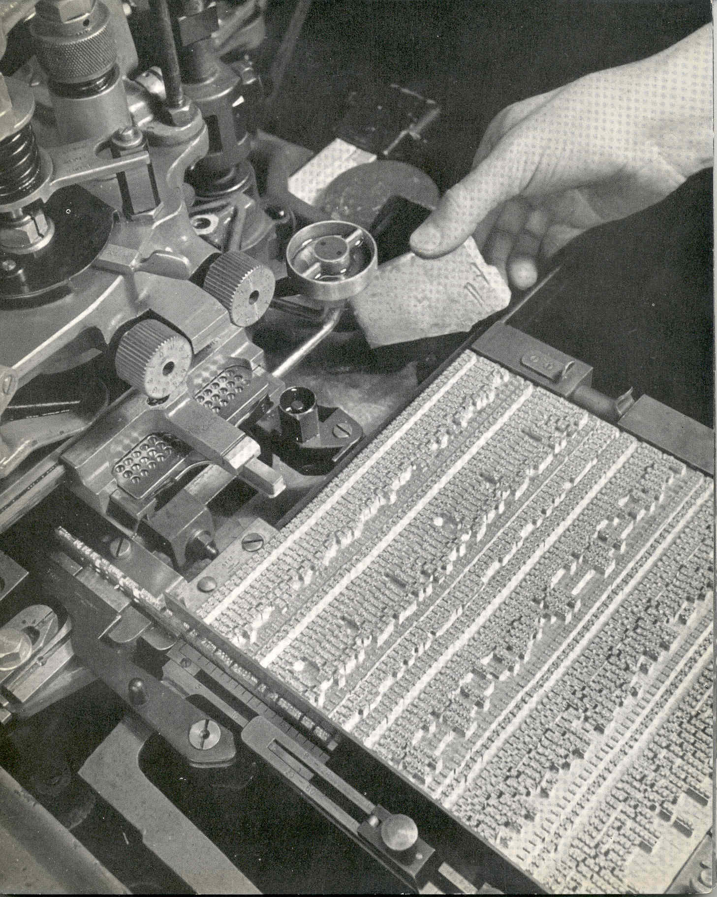 view on composition-caster, showing the type produced